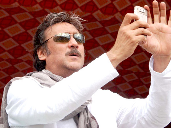 Jackie Shroff at Ghatkopar Dahi Handi Celebrations